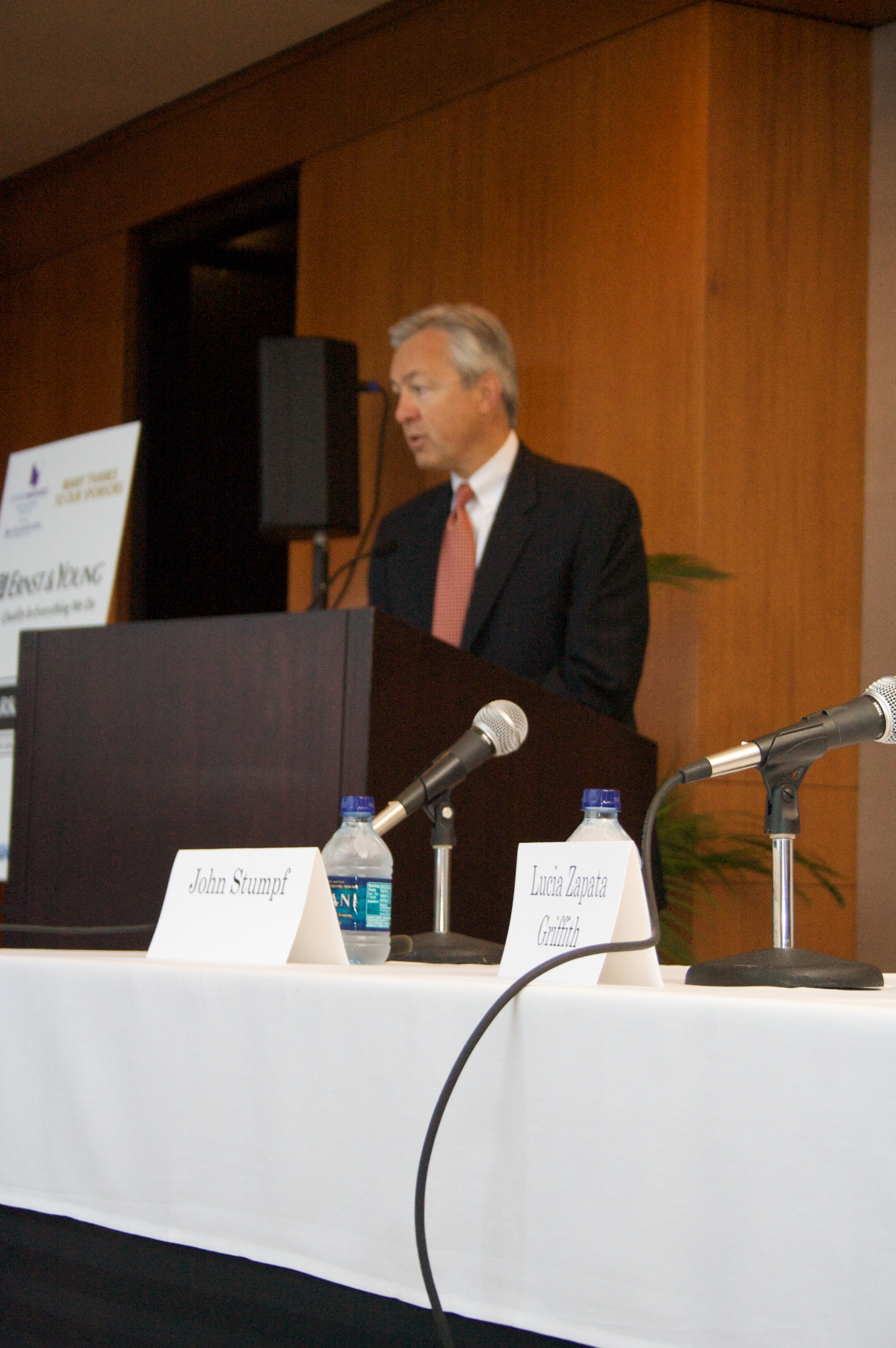 ICV09 breakfast w/ John Stumpf, Jim Rogers, Lucia Zapata Griffith